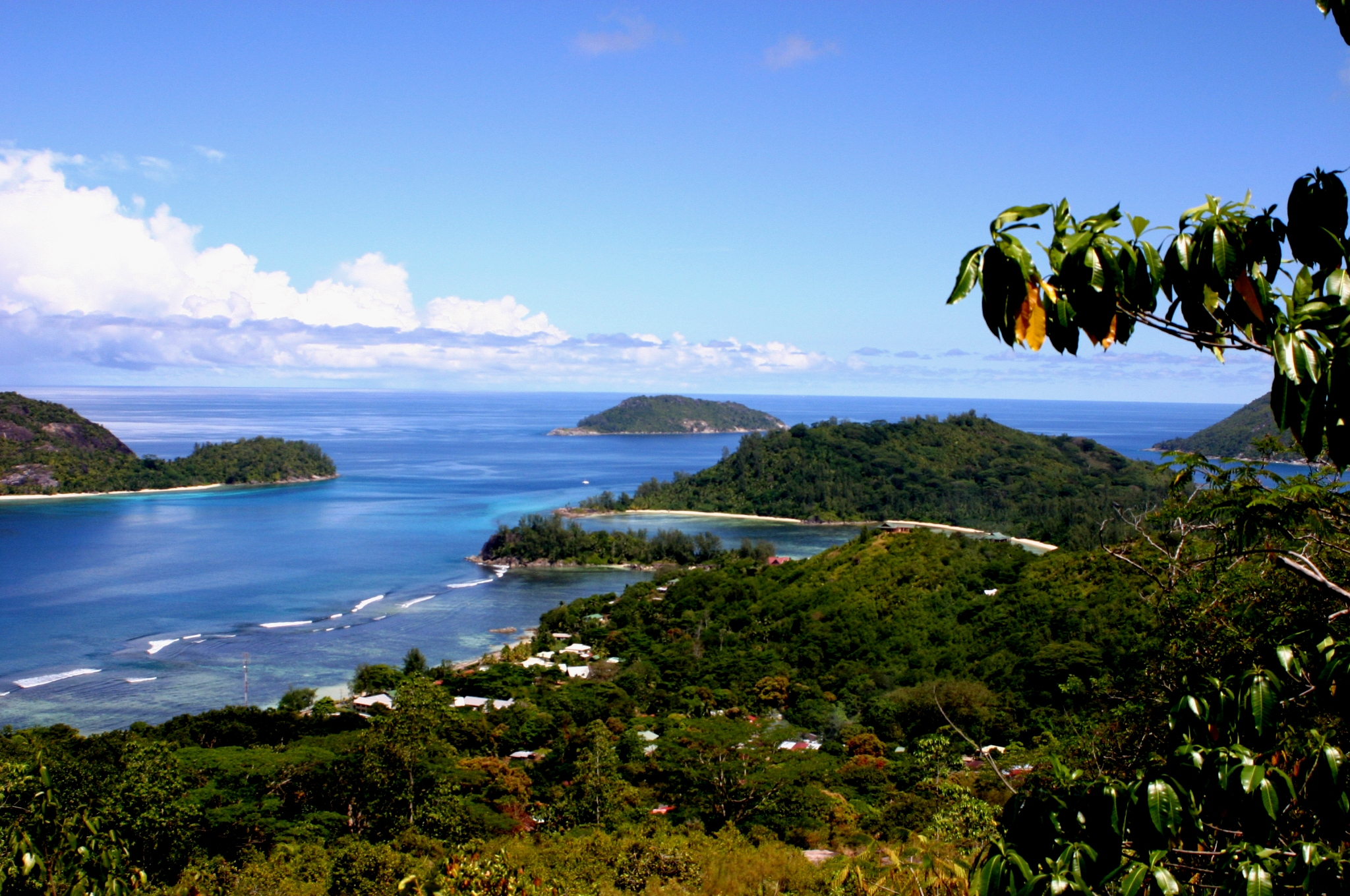 Mahe Seychelles Photograped by Brocken Inaglory